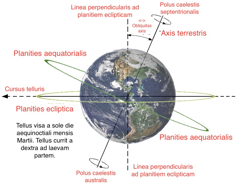 Description of relations between Axial tilt (or Obliquity), rotation axis, plane of orbit, celestial equator and ecliptic. Earth is shown as viewed from the Sun; the orbit direction is counter-clockwise (to the left). It is equinox in September.